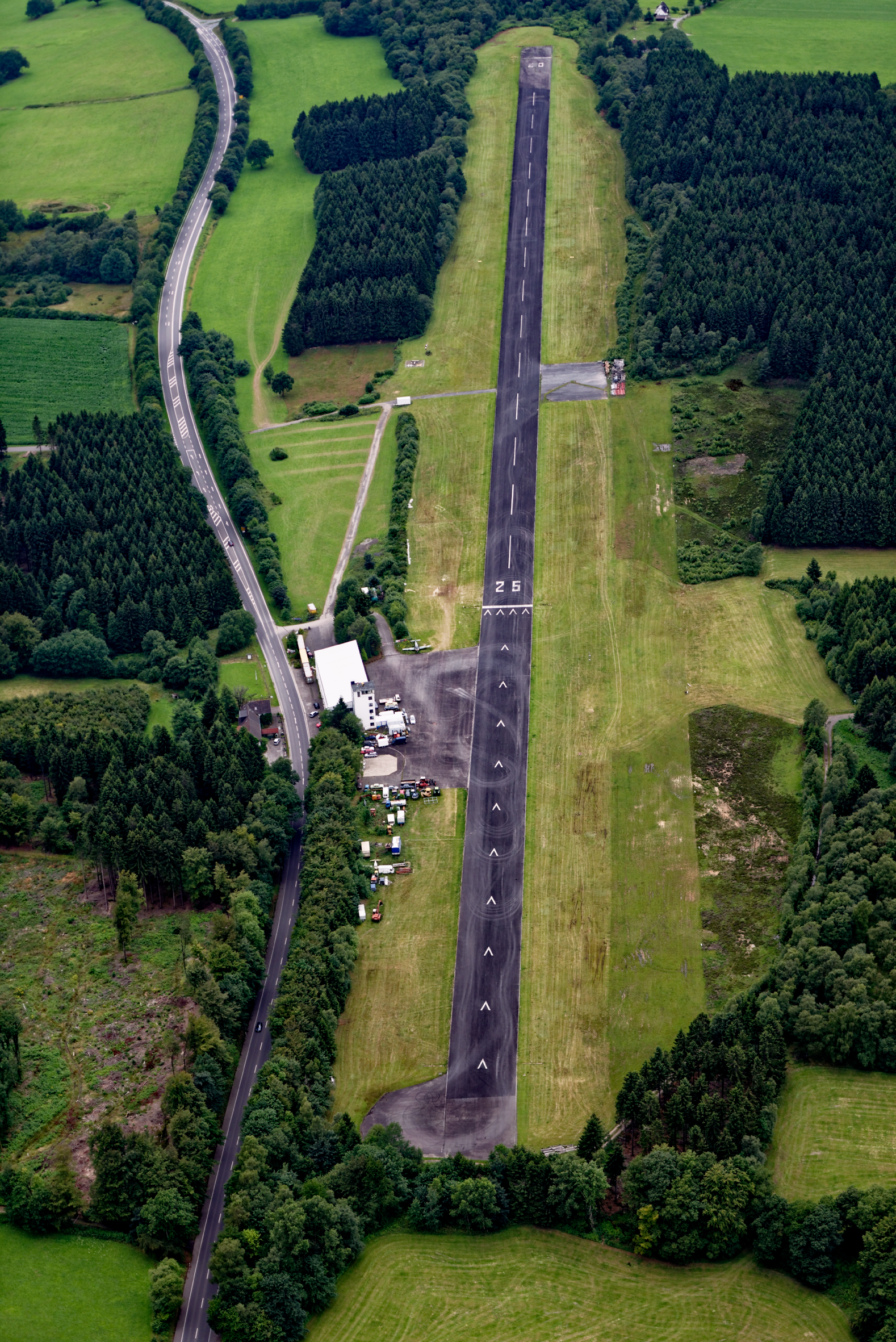 Flugplatz Meinerzhagen; Landesstraße 306; links oben angeschnitten das Naturschutzgebiet Quellgebiet der Wupper mit Wupperquellen The making of this document was supported by the Community-Budget of Wikimedia Germany.